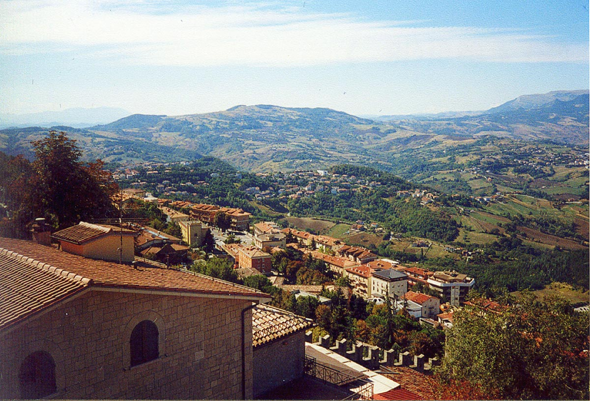 San Marino